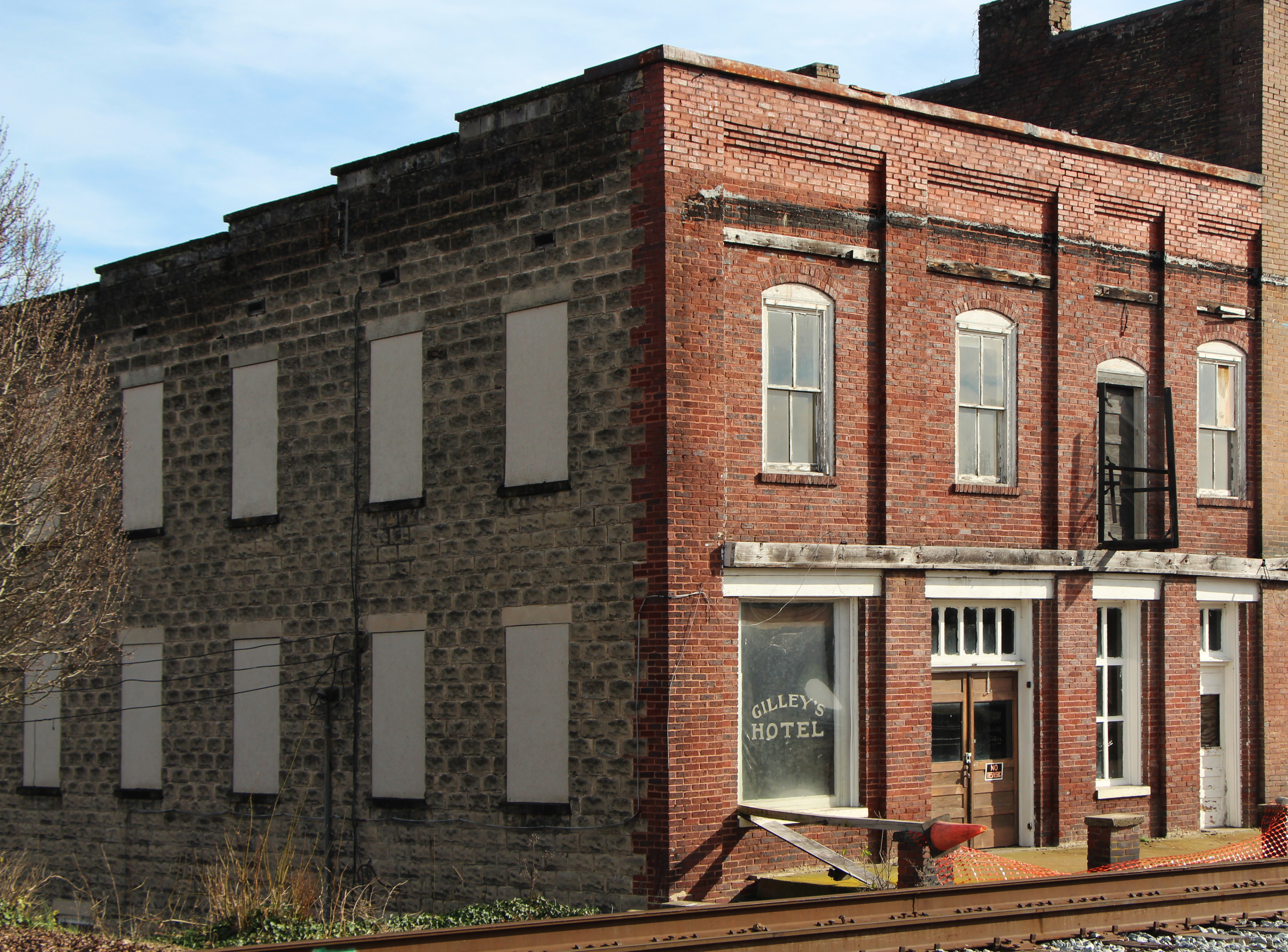 Gilley Hotel, Bulls Gap, TN